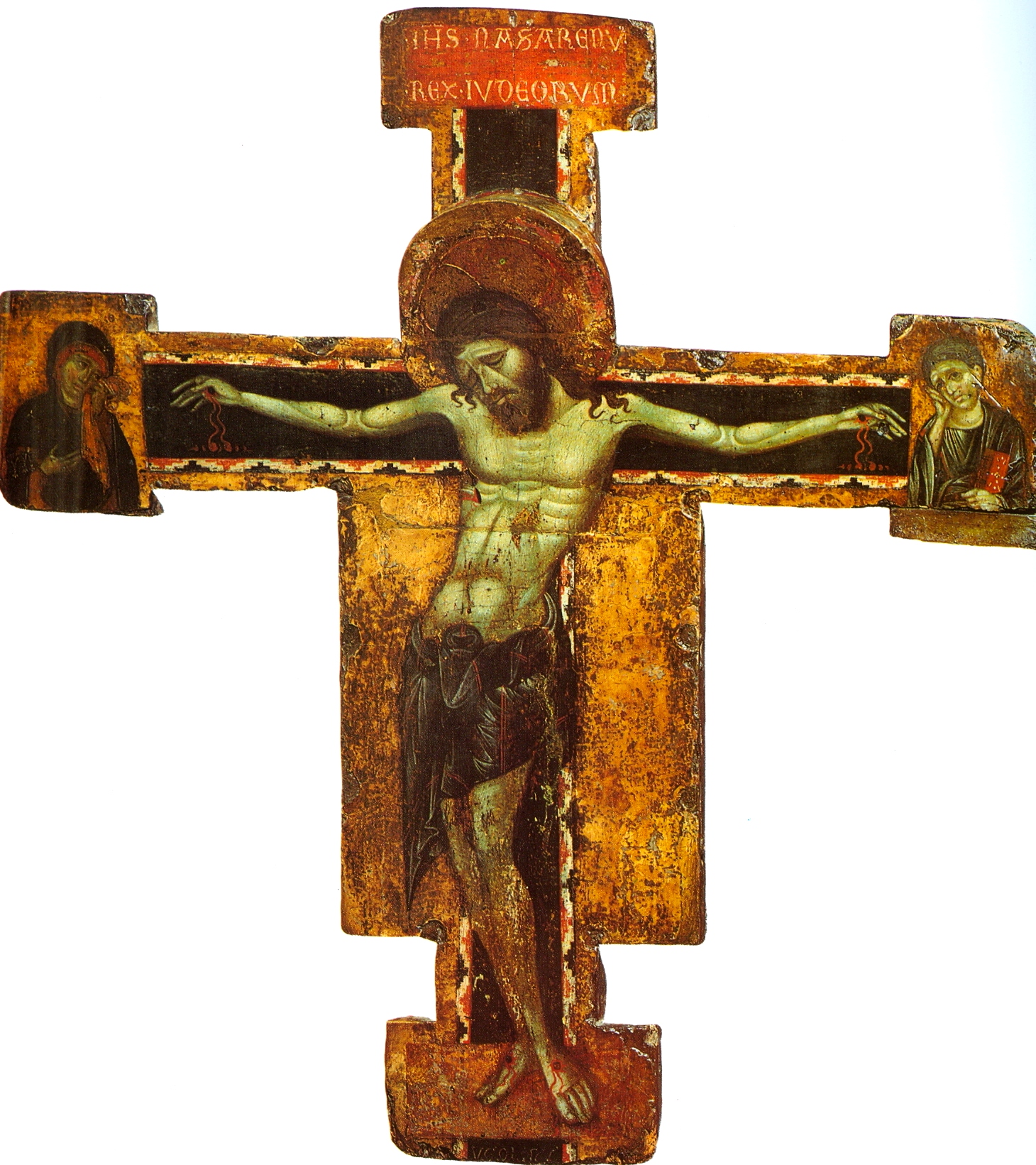 Crucifix